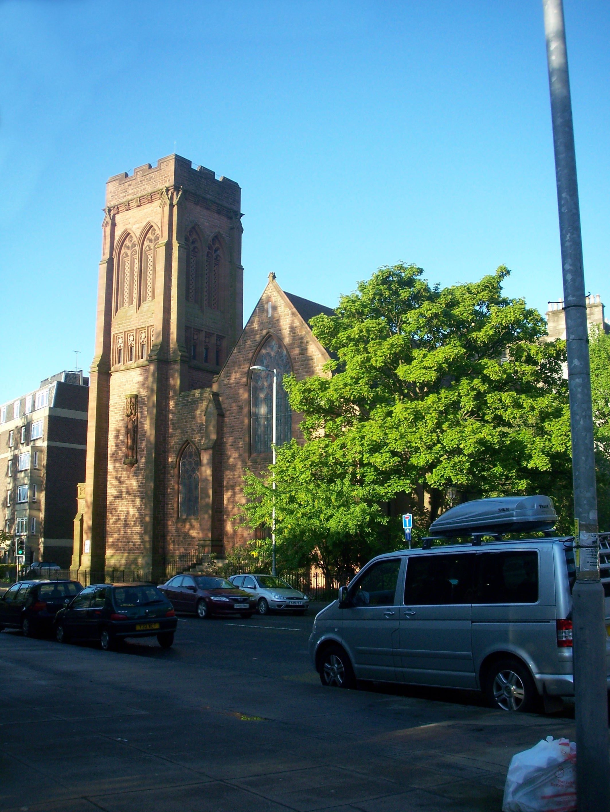 St Bride's Episcopal Church, Glasgow